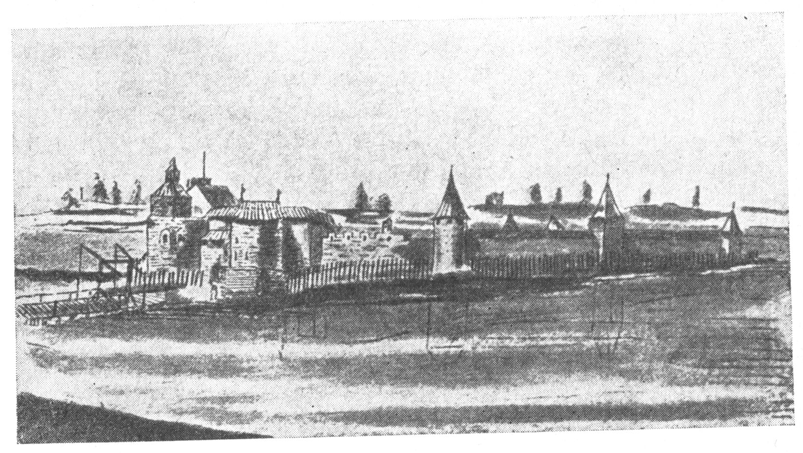 View to the Aluksne (Marienburg) Castle from North-West in 1661.